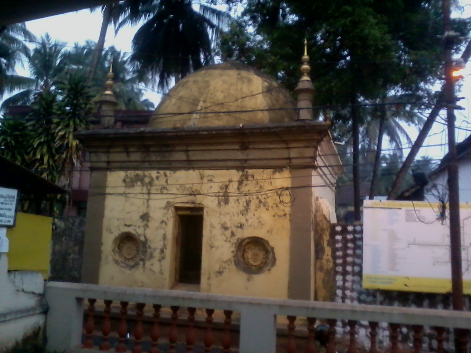 Hyderoos Maqam